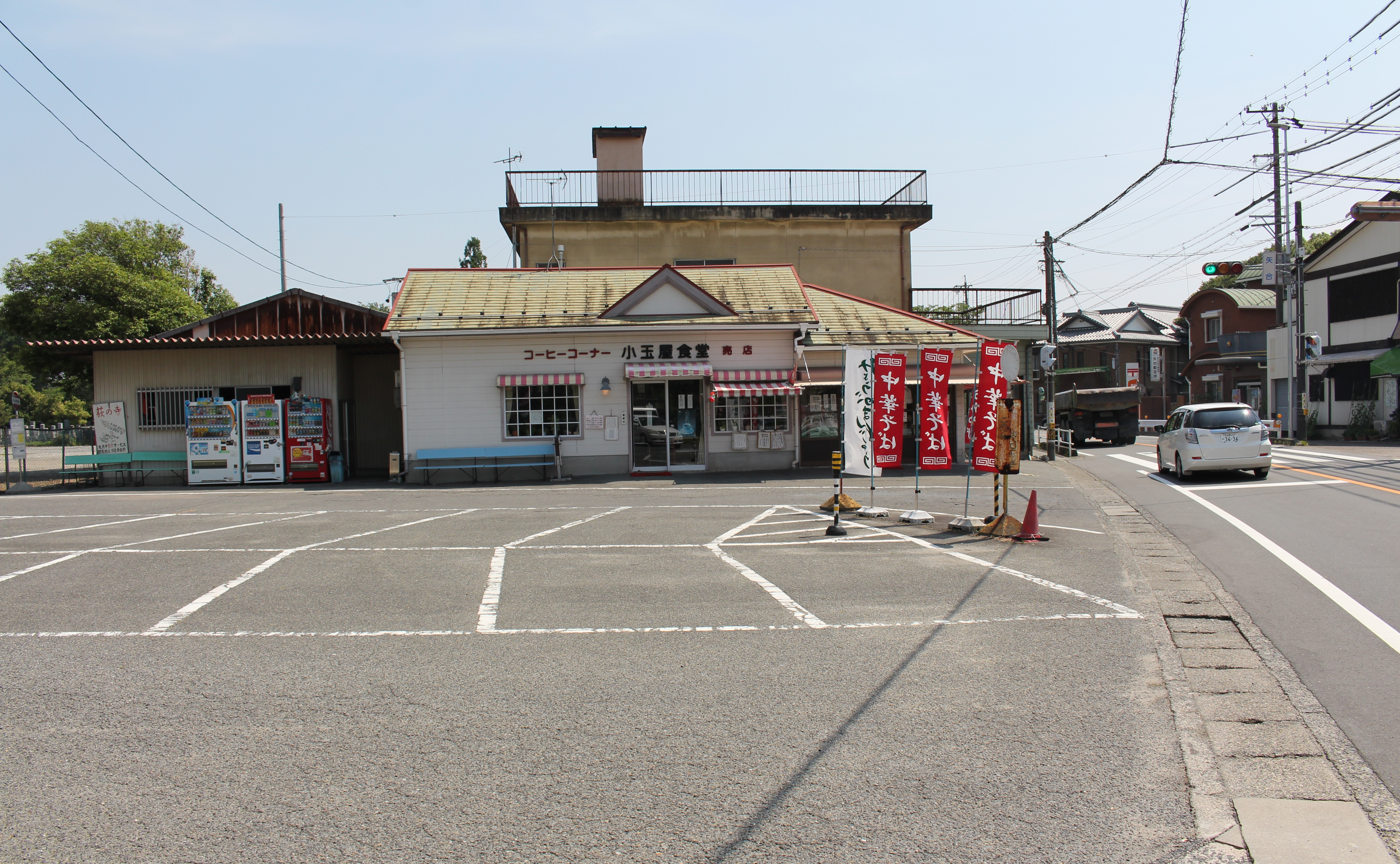 Yawase Kannon. bus stop of Meitetsu Bus, in Inazawa, Aichi prefecture, Japan.